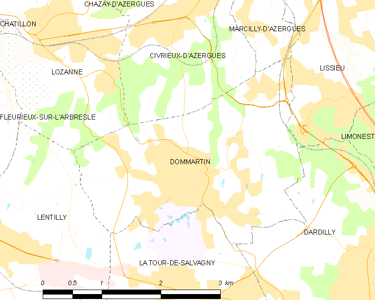 Map of French municipality